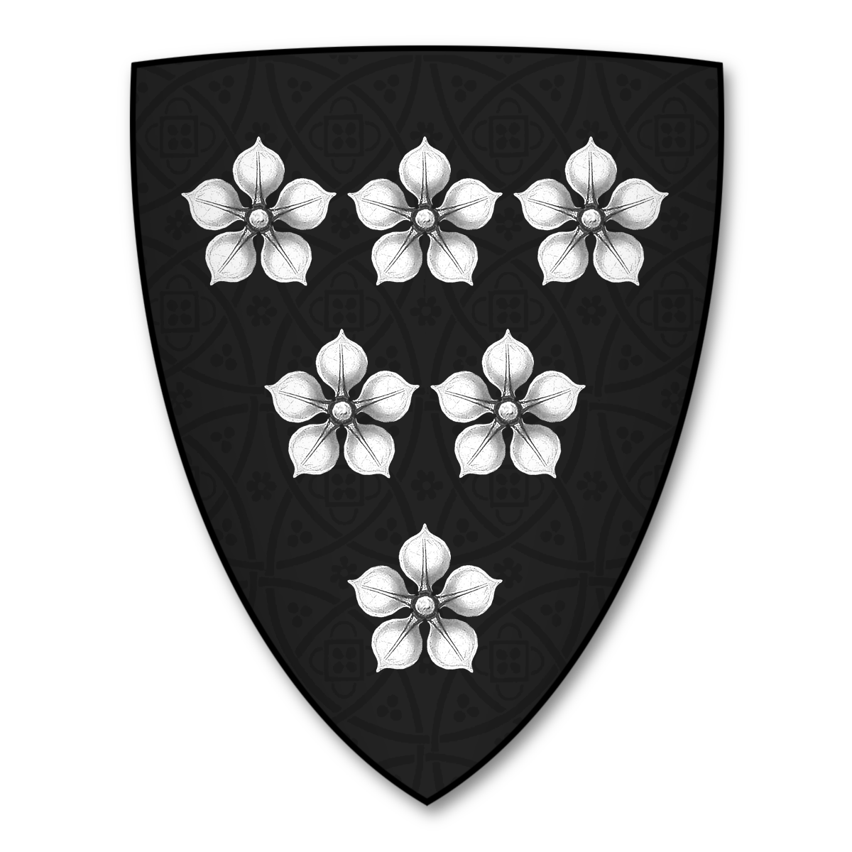 Coat of arms of Simon Frazer, as blazoned in the Caerlaverock Poem (K-054: "Symon Fresel") "Le ot noire a rosettes de argent." Arms: Sable, [six] roses [cinquefoils] argent. (The number of roses is not specified, but the Falkirk Roll states six.)